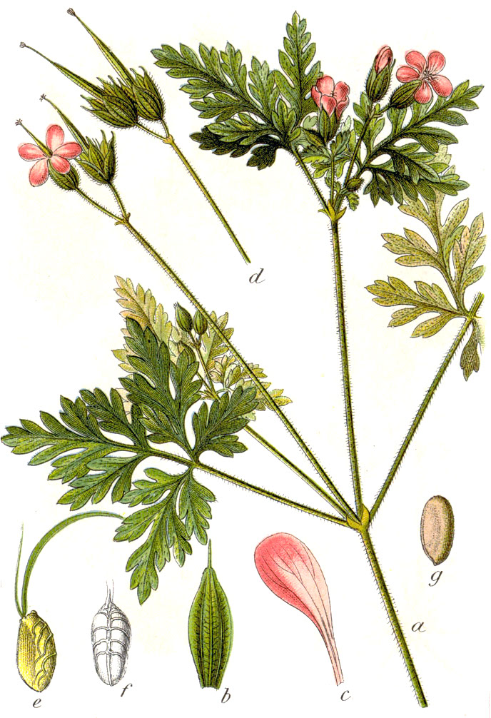 Geranium robertianum L. s. str. Original Caption Ruprechtskraut, Geranium robertianum